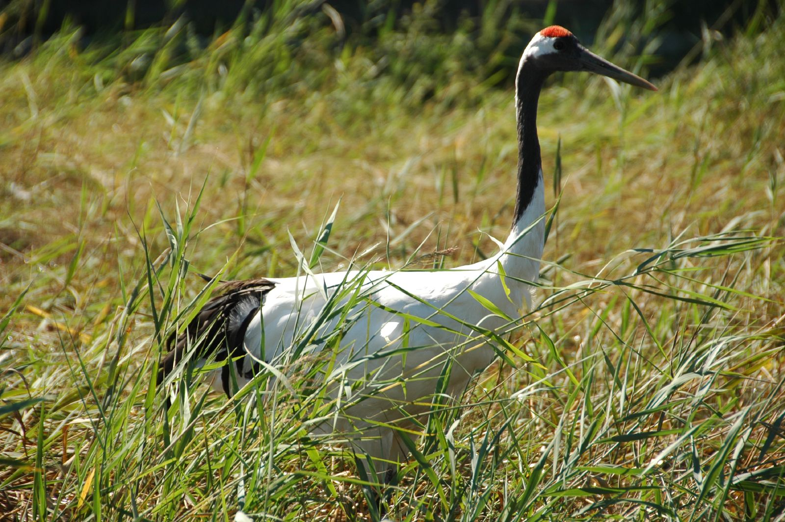 Grus japonensis, Zhalong Nature Preserve, Heilongjiang, China.